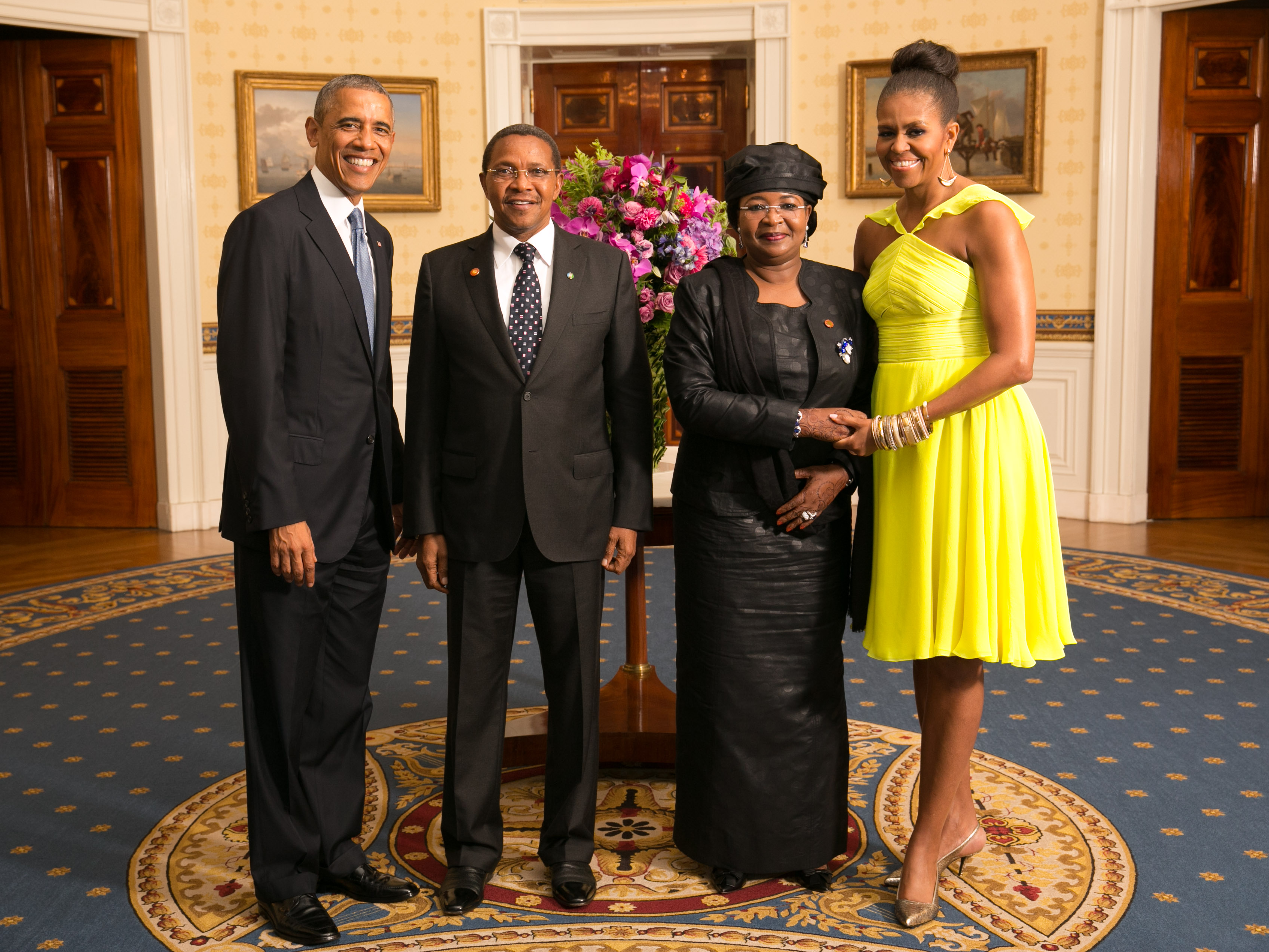 President Barack Obama and First Lady Michelle Obama greet His Excellency Jakaya Mrisho Kikwete, President of the United Republic of Tanzania, and Mrs. Salma Kikwete, in the Blue Room during a U.S.-Africa Leaders Summit dinner at the White House, Aug. 5, 2014. [Official White House Photo by Amanda Lucidon] This official White House photograph is in the public domain from a copyright perspective, so while restrictions such as personality or privacy rights may apply, in general, manipulations are allowed.